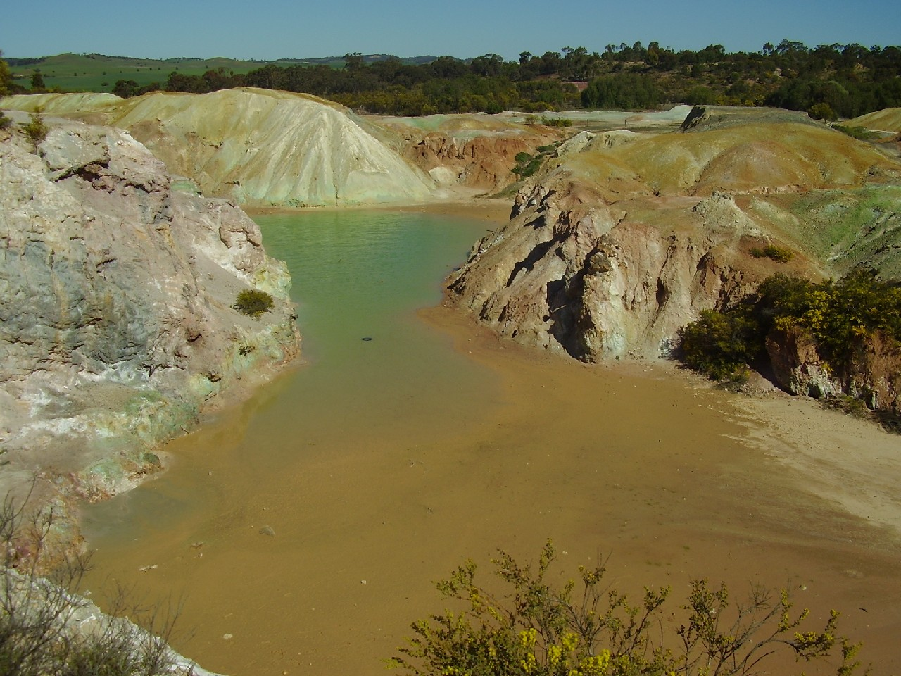 Abandoned open copper pit mine, Kapunda South Australia